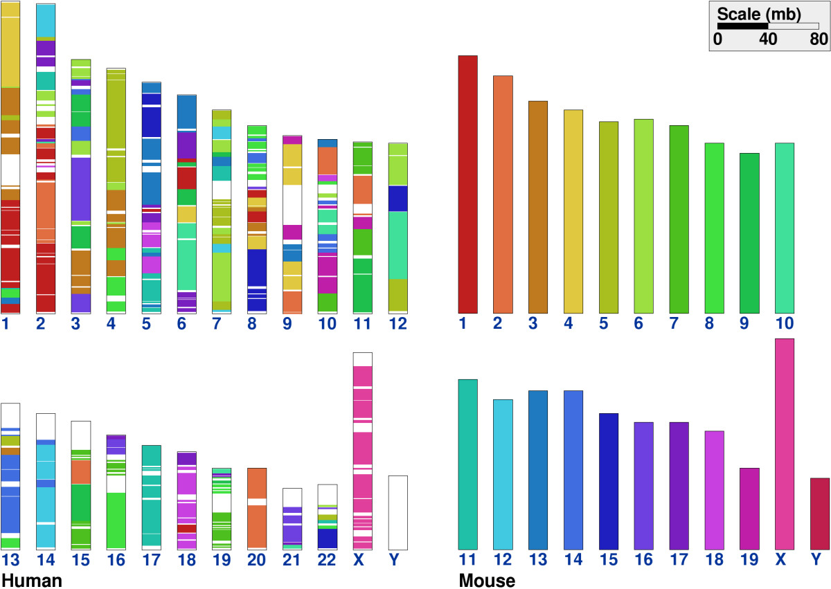 Visualization of synteny between human and mouse genomes.